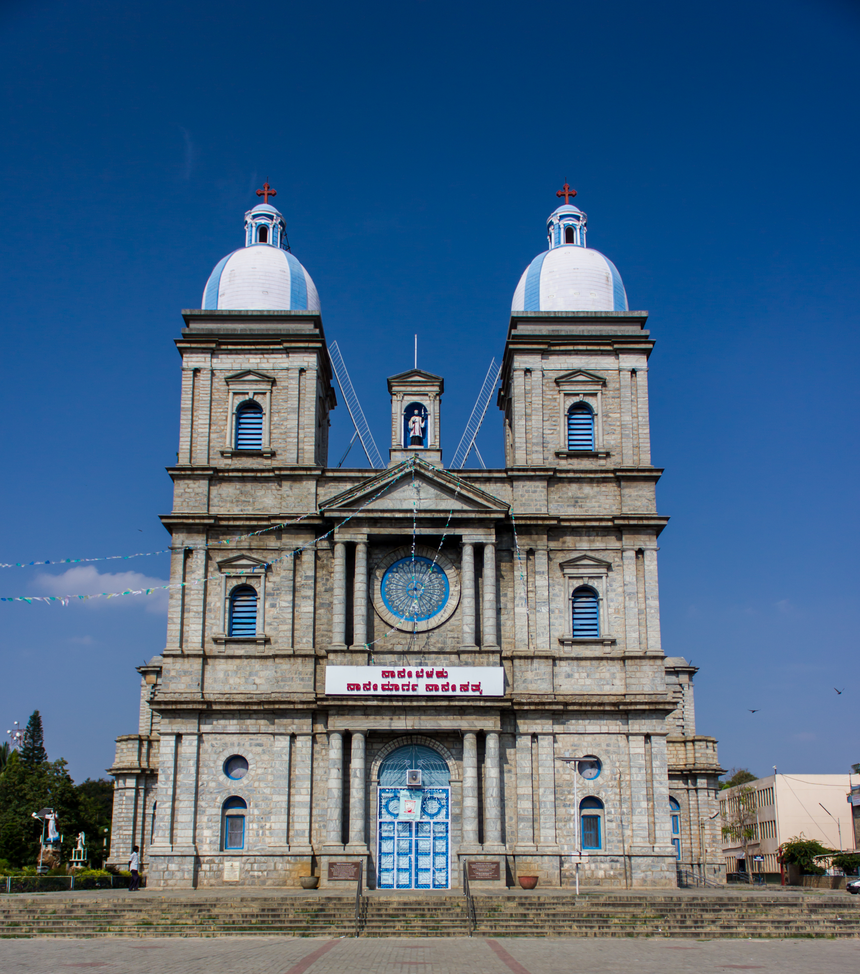 St. Francis Xavier's Cathedral, Bangalore by Saad Faruque